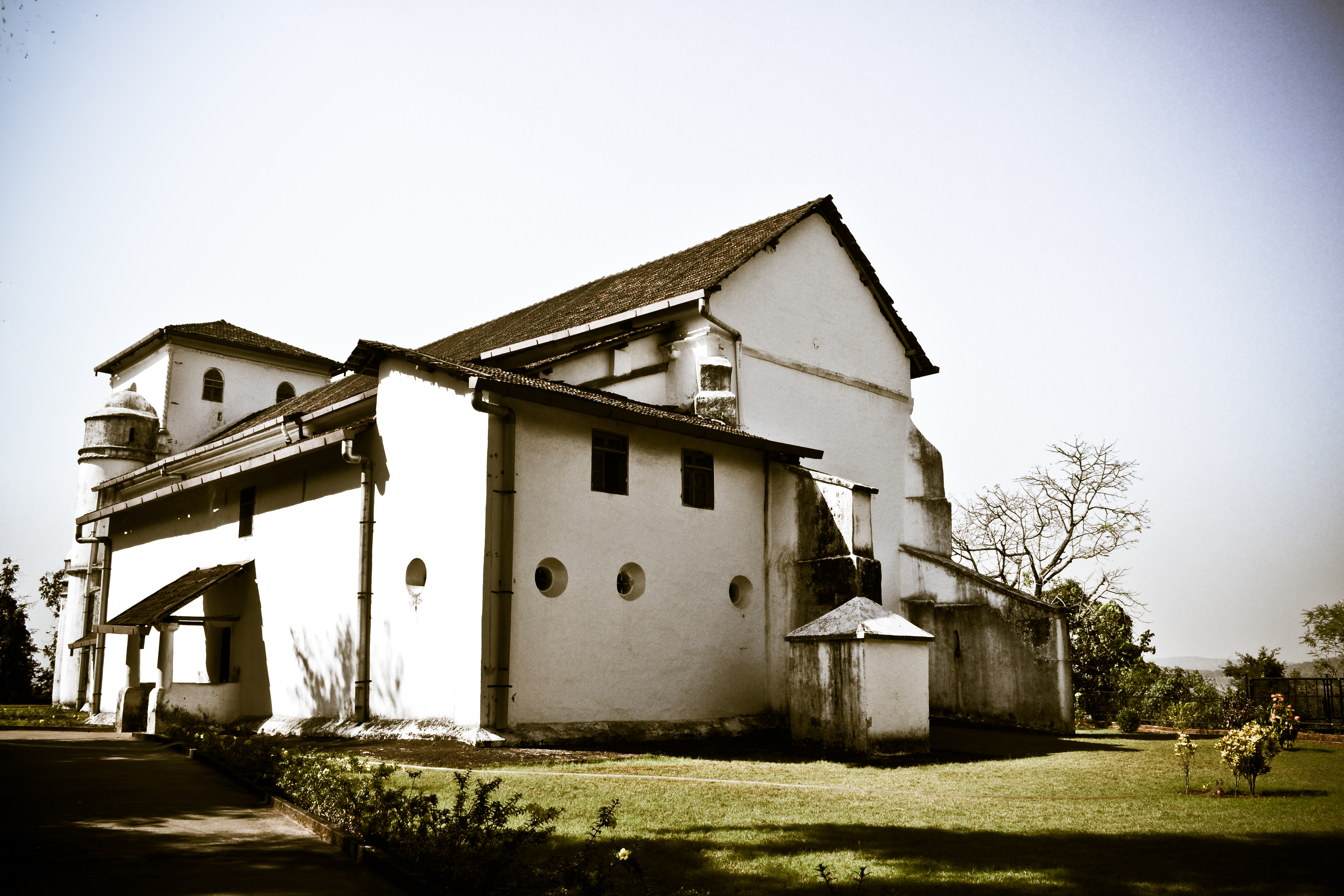 Church of Lady of Rosary